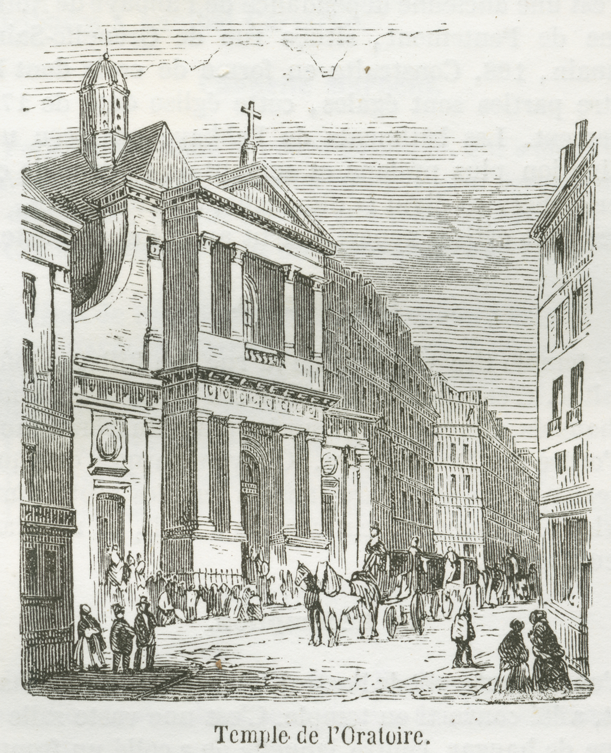 A view of the Temple de l'Oratoire by the rue re Rivoli and the rue Saint-Honoré.